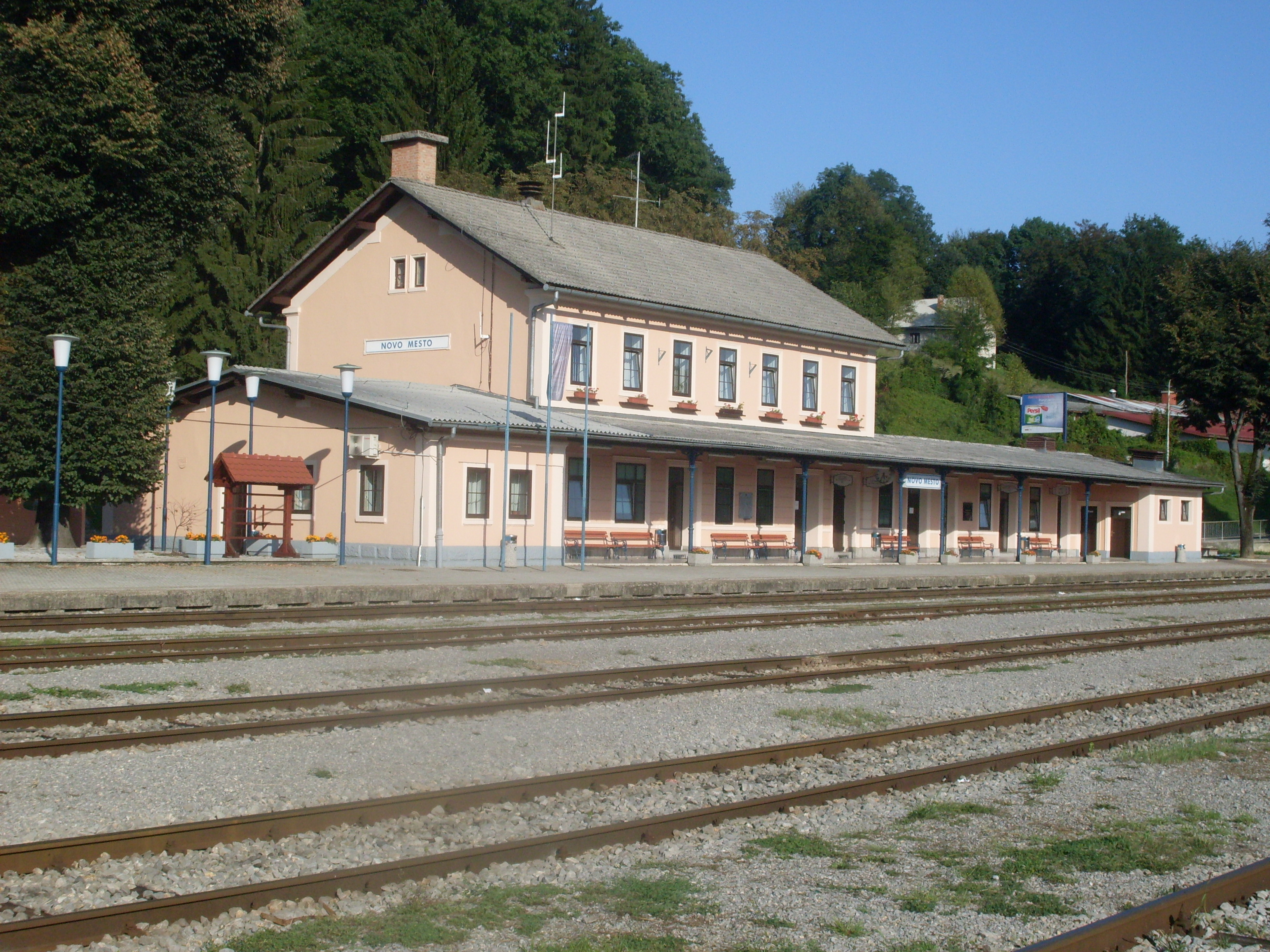 Main train station in Novo mesto, Slovenia - view from tracks